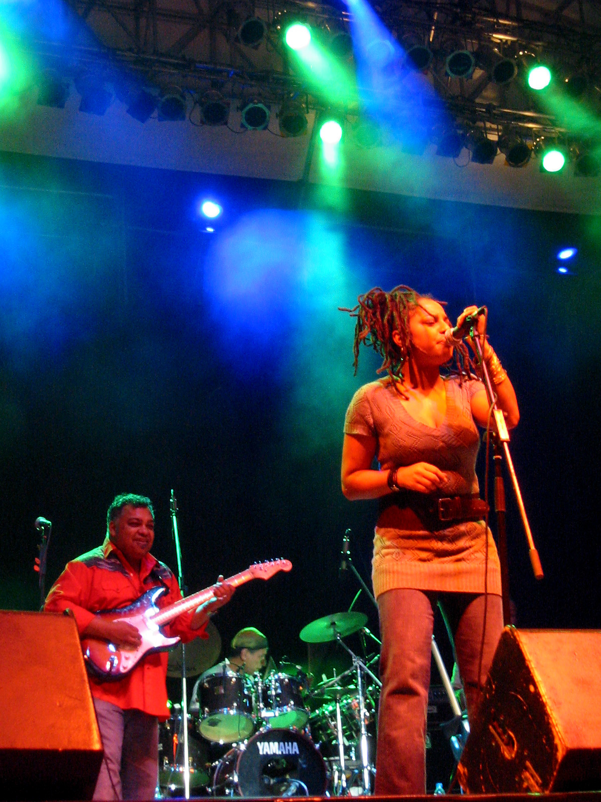 Jazz Festival Bangkok december 2005 One of the hilight of this festival this year is Incognito. As the only Funk band this time, their show was full of energy and enjoyment.